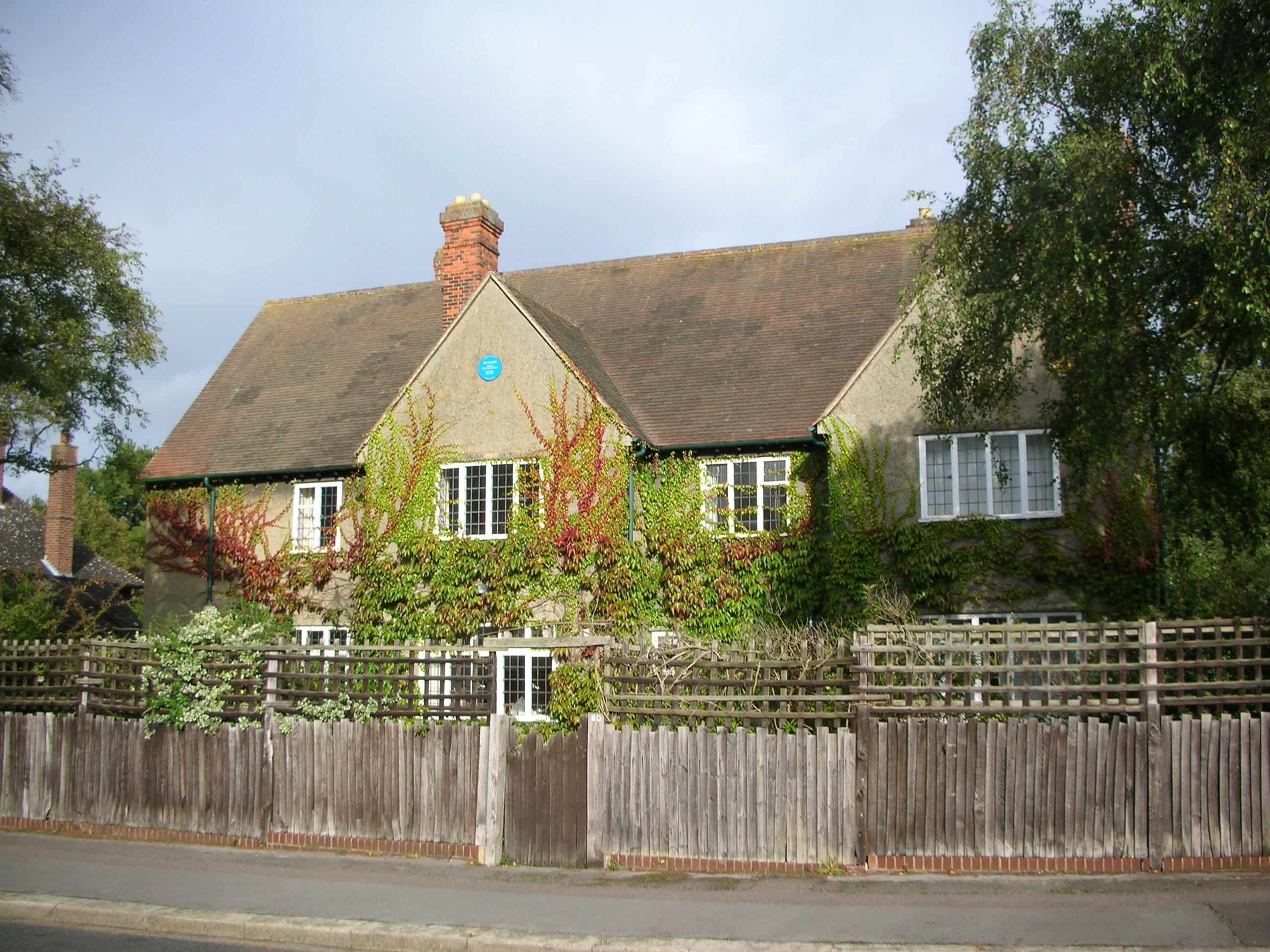 Photograph of the building at 20 Northmoor Road, Oxford, England, former home of the author J. R. R. Tolkien (1930 - 1947).